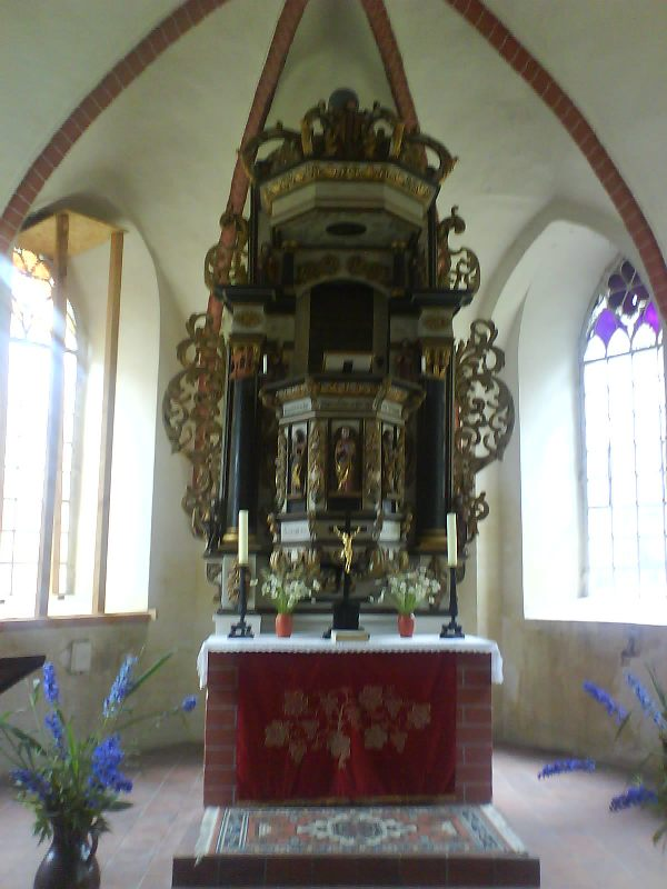 pulpit altar Church in Selbelang in Brandenburg, Germany